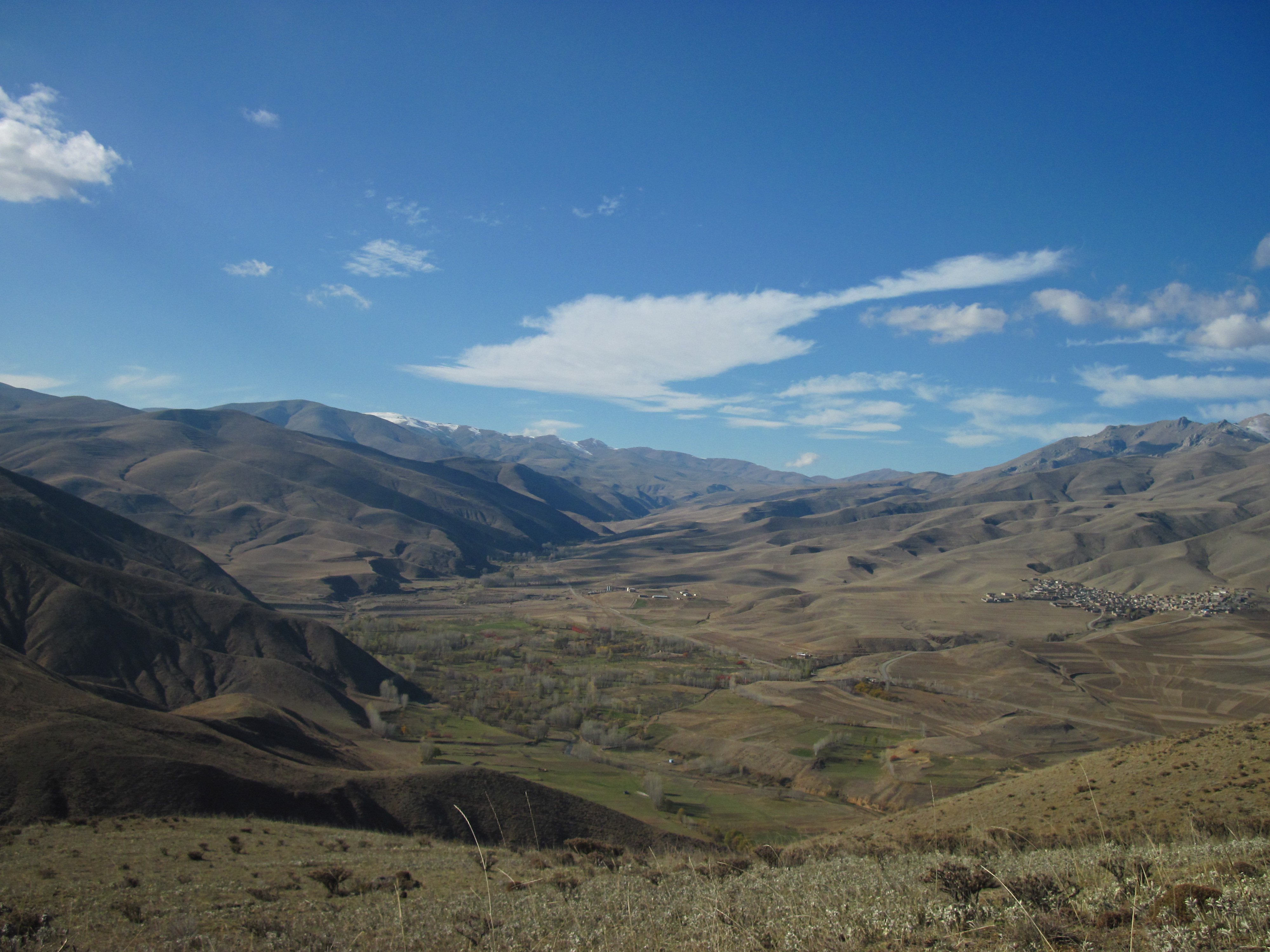 This photo of Nowjeh Deh-e Olya was taken by Ravanbakhsh Leysi.